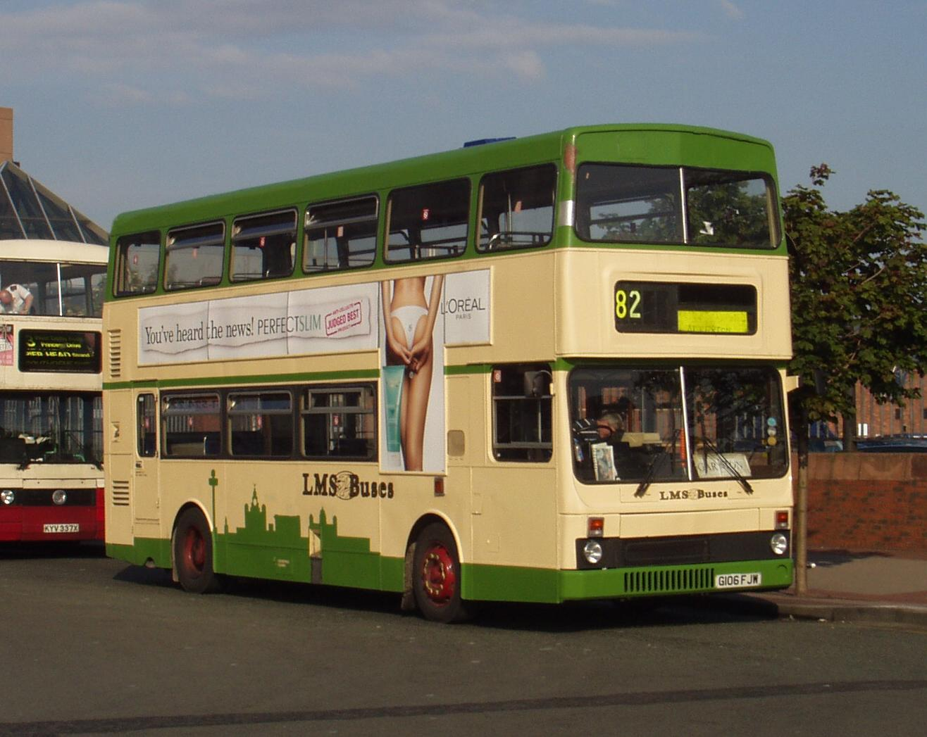 MCW Metrobus Mk II in the fleet of LMS Buses, at Liverpool Mann Island / Pier Head